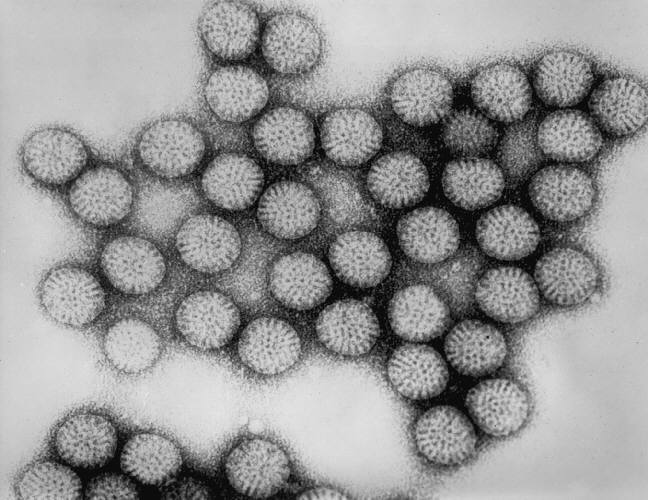 ID#: 273 Description: Transmission electron micrograph of intact rotavirus particles, double-shelled Transmission electron micrograph of intact rotavirus particles, double-shelled. Distinctive rim of radiating capsomeres. Content Providers(s): CDC/Dr. Erskine Palmer Creation Date: 1981 Copyright Restrictions: None - This image is in the public domain and thus free of any copyright restrictions. As a matter of courtesy we request that the content provider be credited and notified in any public or private usage of this image.